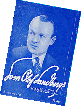 Sven-Olof Sandberg's book of ballads.